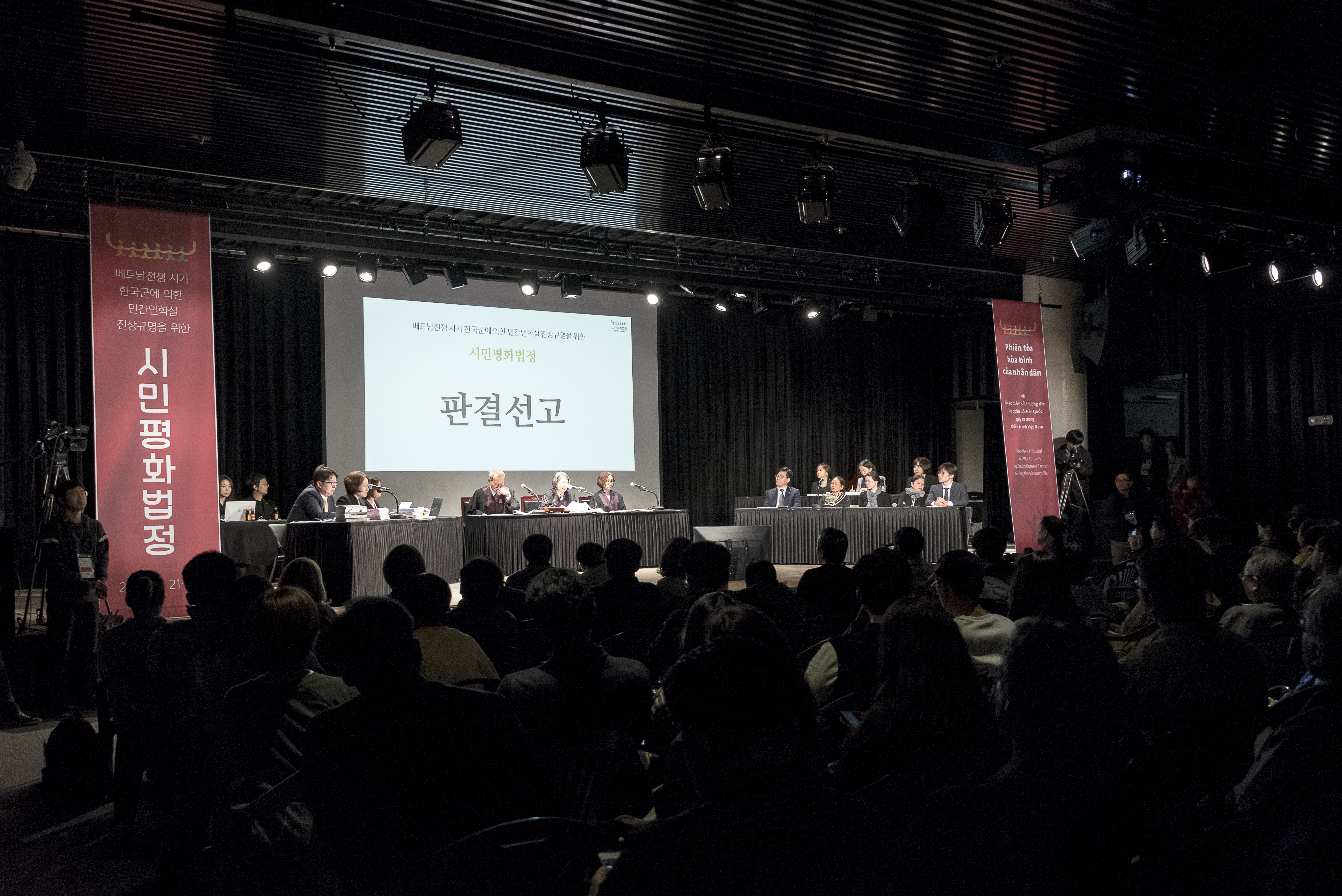 People's Tribunal on War Crimes by South Korean Troops during the Vietnam War to hold by Minbyun and Korea-Vietnam Peace Foundation.